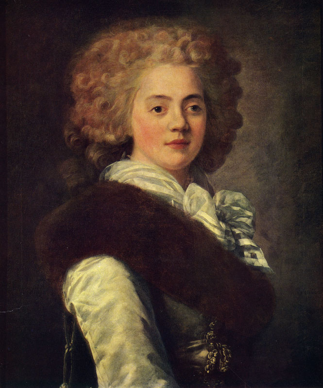 Baronesse Stroganova